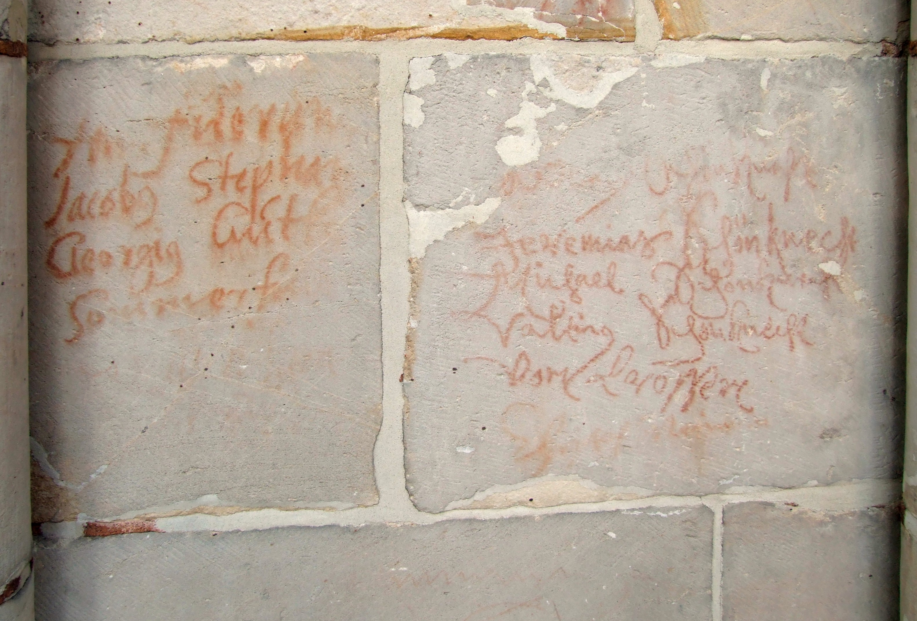 hand-written signatures from the 17-th century pilgrims left on the walls of a chapel in Żagań